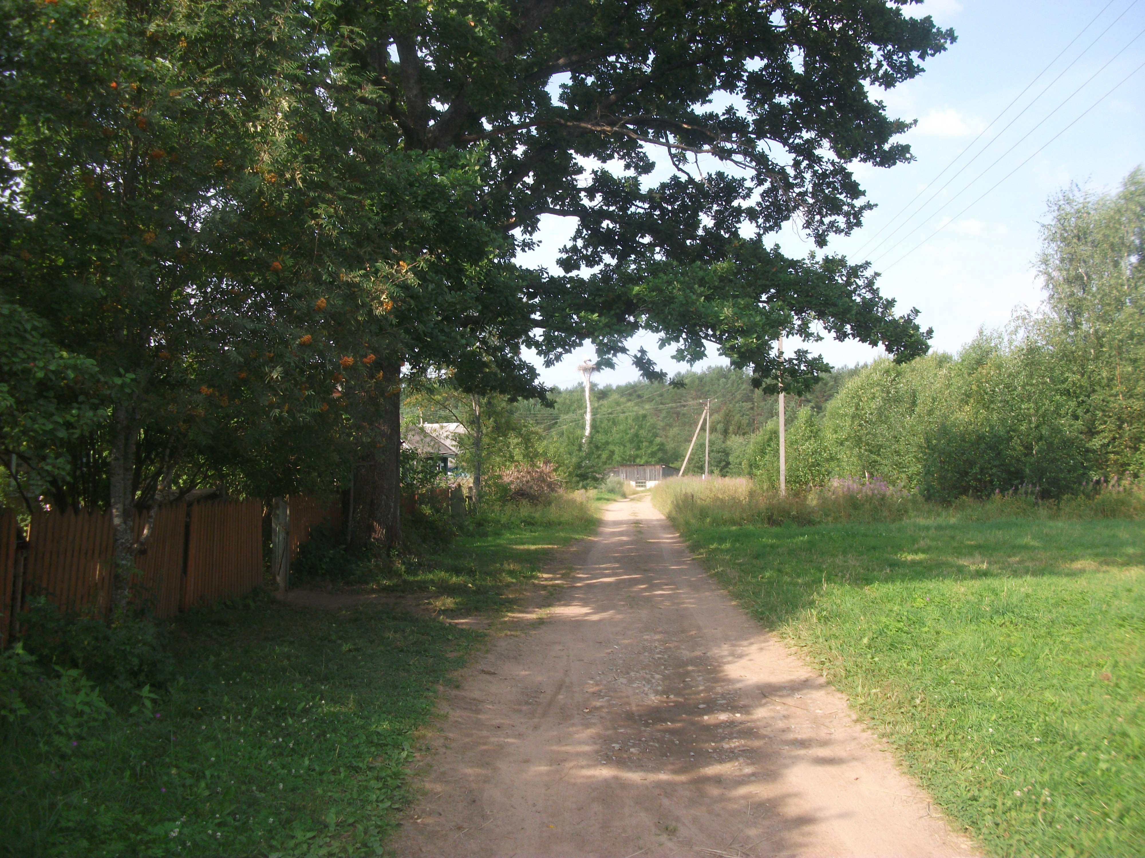 Zarudenje, Lesnaja St.